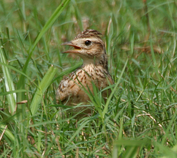 Oriental Skylark or Oriental Lark or Small Skylark Alauda gulgula in Kolleru, Andhra Pradesh, India.